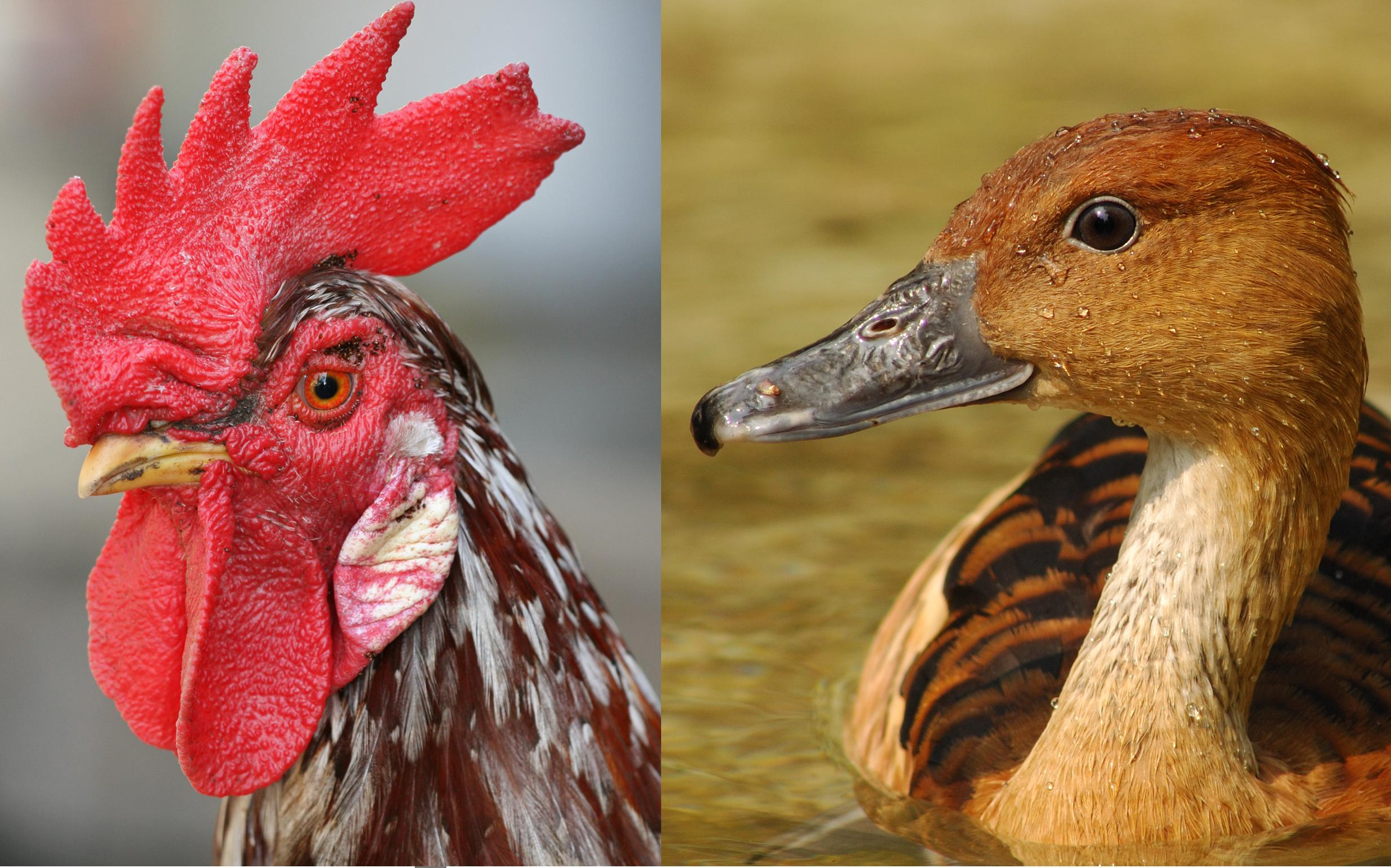 Galloanserae.